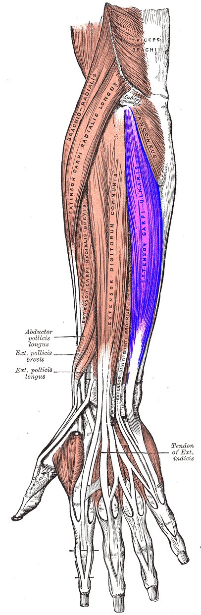 Posterior surface of the forearm. Superficial muscles. Extensor carpi ulnaris muscle is labeled in purple.